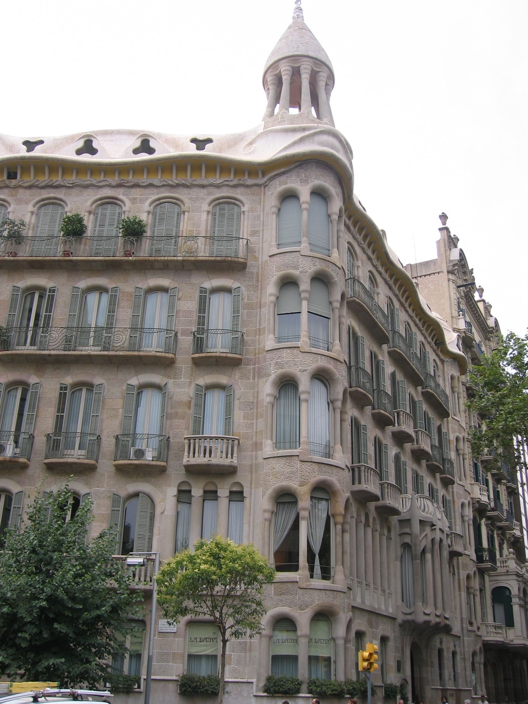 Casa Sayrach, Aviguda Diagonal 423-425, Barcelona, Spain. Architect : Sayrach. 1918